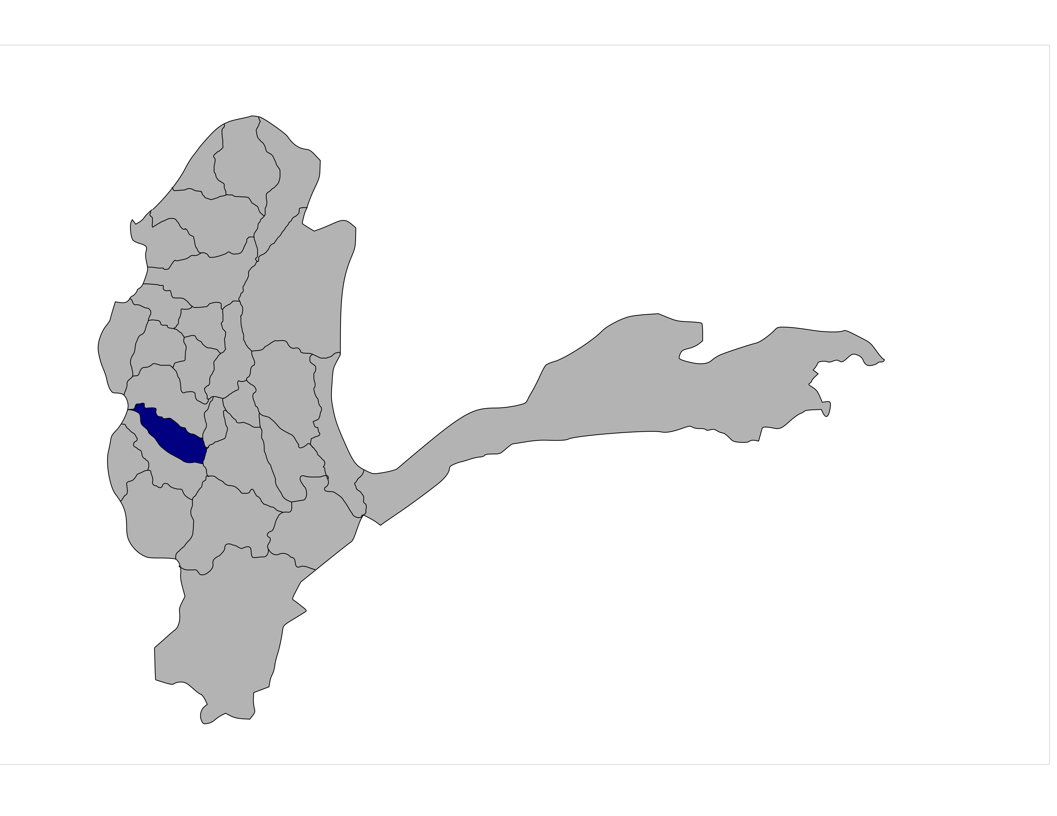 Shows the boundaries of Darayim District, Badakhshan Province, Afghanistan.